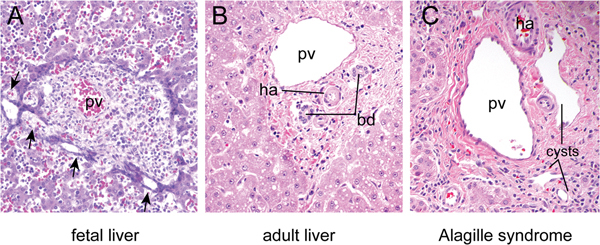 Histological staining of human liver sections at: (A) 16 weeks of development showing focal dilations (arrows) in the bi-layer of the biliary epithelial cell precursors surrounding the portal vein (pv). (B) A mature liver showing the bile ducts (bd) and hepatic artery (ha) embedded in the periportal mesenchyme in a characteristic arrangement known as the “portal triad”. Hepatocytes are arranged in chords surround the portal triad. (C) The portal triad region from an Alagille syndrome patient showing ductal cysts rather than normal bile ducts as a result of defects in ductal plate remodeling. Images courtesy of Gail Deutsch.